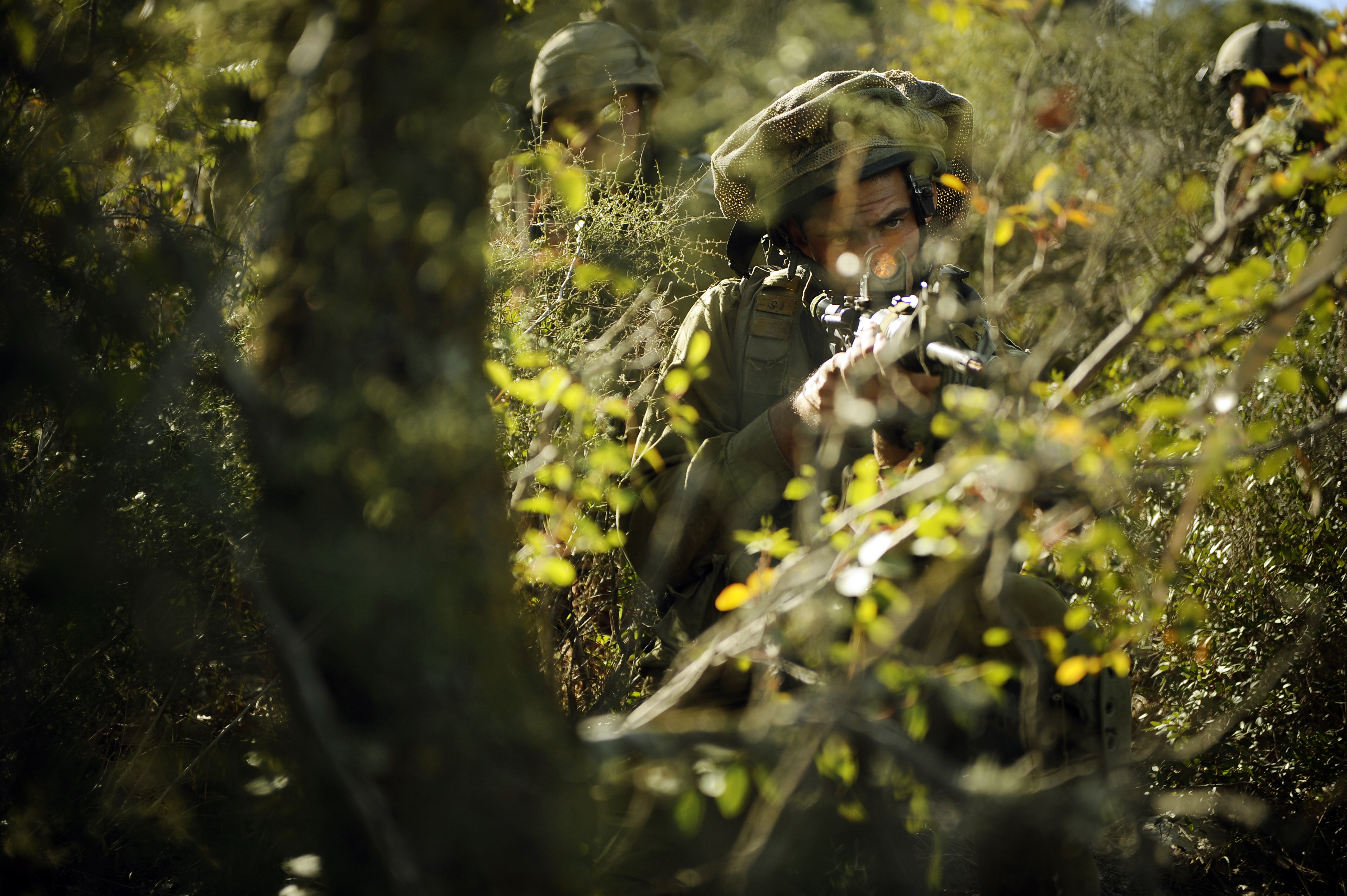 November 9, 2011 Soldiers of the Reconnaissance Battalion of the "Nachal" Brigade conducted a series of "commando" training exercises in northern Israel, which included training in an entangled environment. Every Infantry brigade has its Reconnaissance Battalion, composed of special companies trained especially for their specific tasks. Photo by Sgt. Ori Shifrin, IDF Spokesperson Unit. Click here to read about the first Gar'in Program Ethiopian officer of the Nachal Brigade. The Israel Defense Forces Facebook page The Israel Defense Forces blog Follow us on Twitter